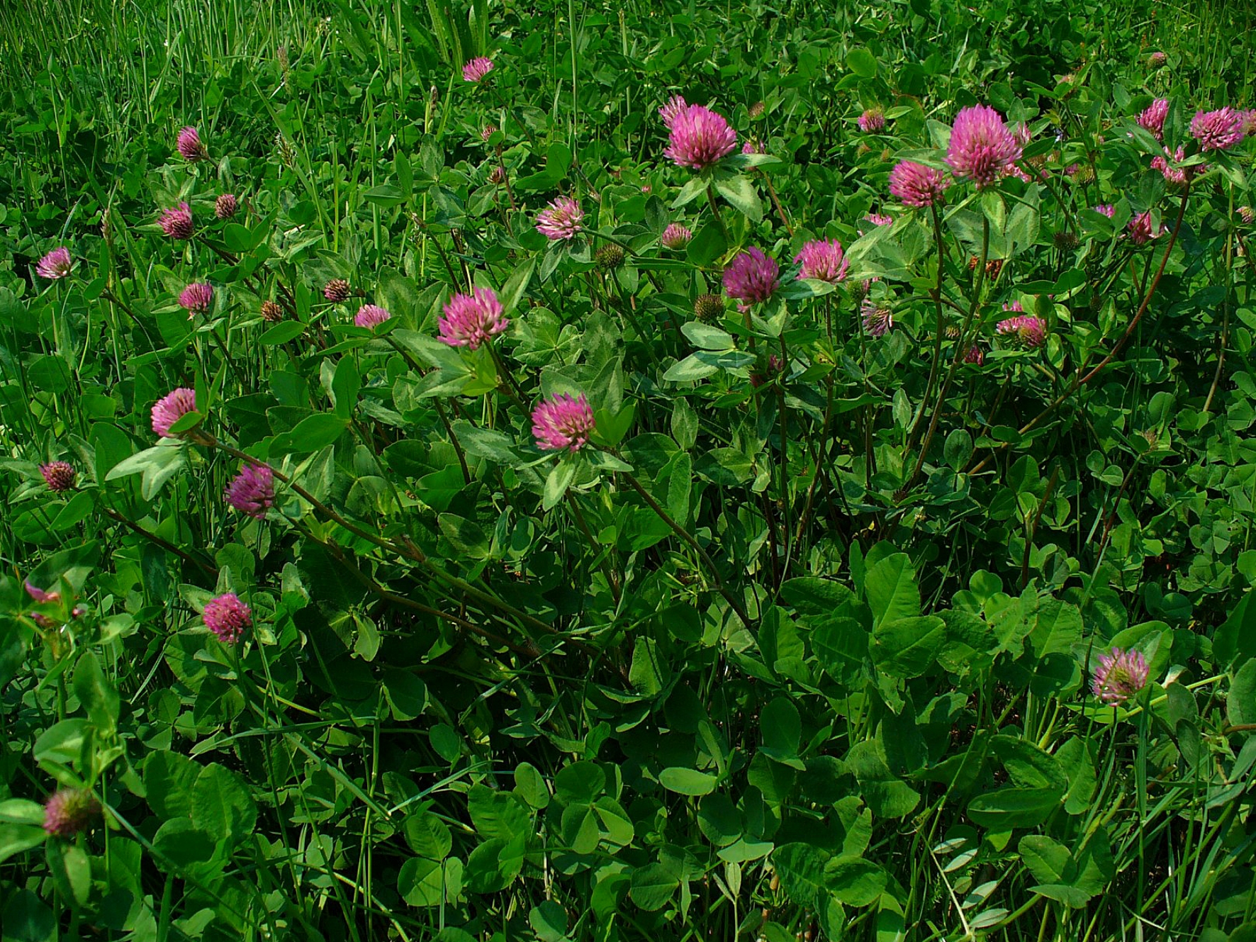 Trifolium pratense, Fabaceae, Red Clover, habitus. Karlsruhe, Germany.